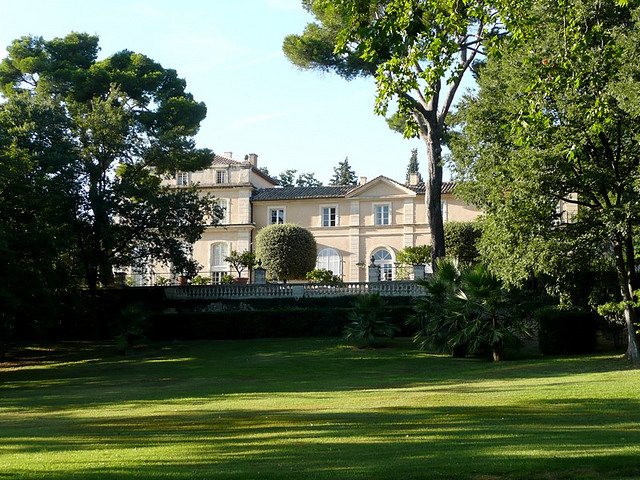 Chateau La Nerthe